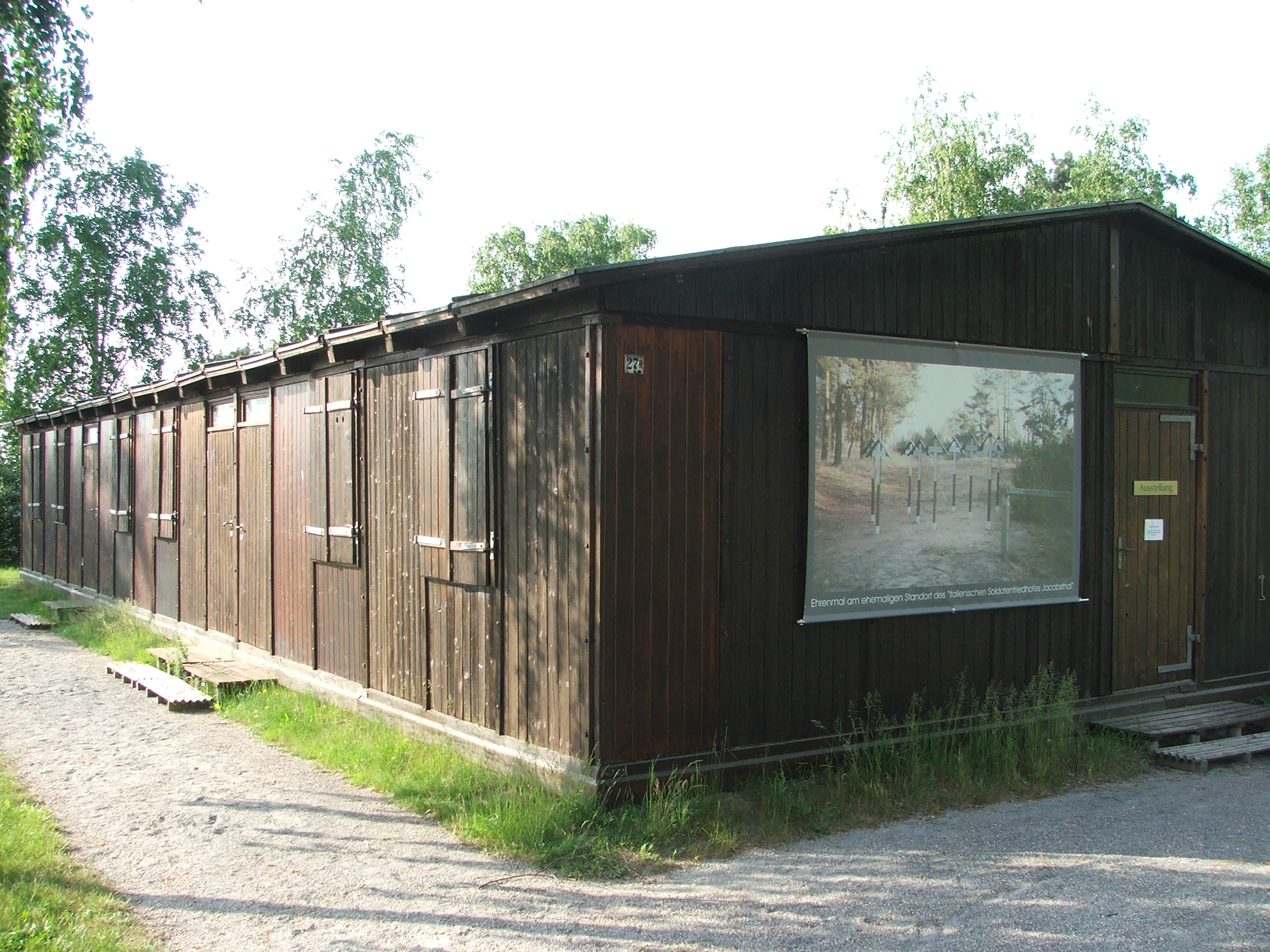 Memorial Ehrenhain Zeithain